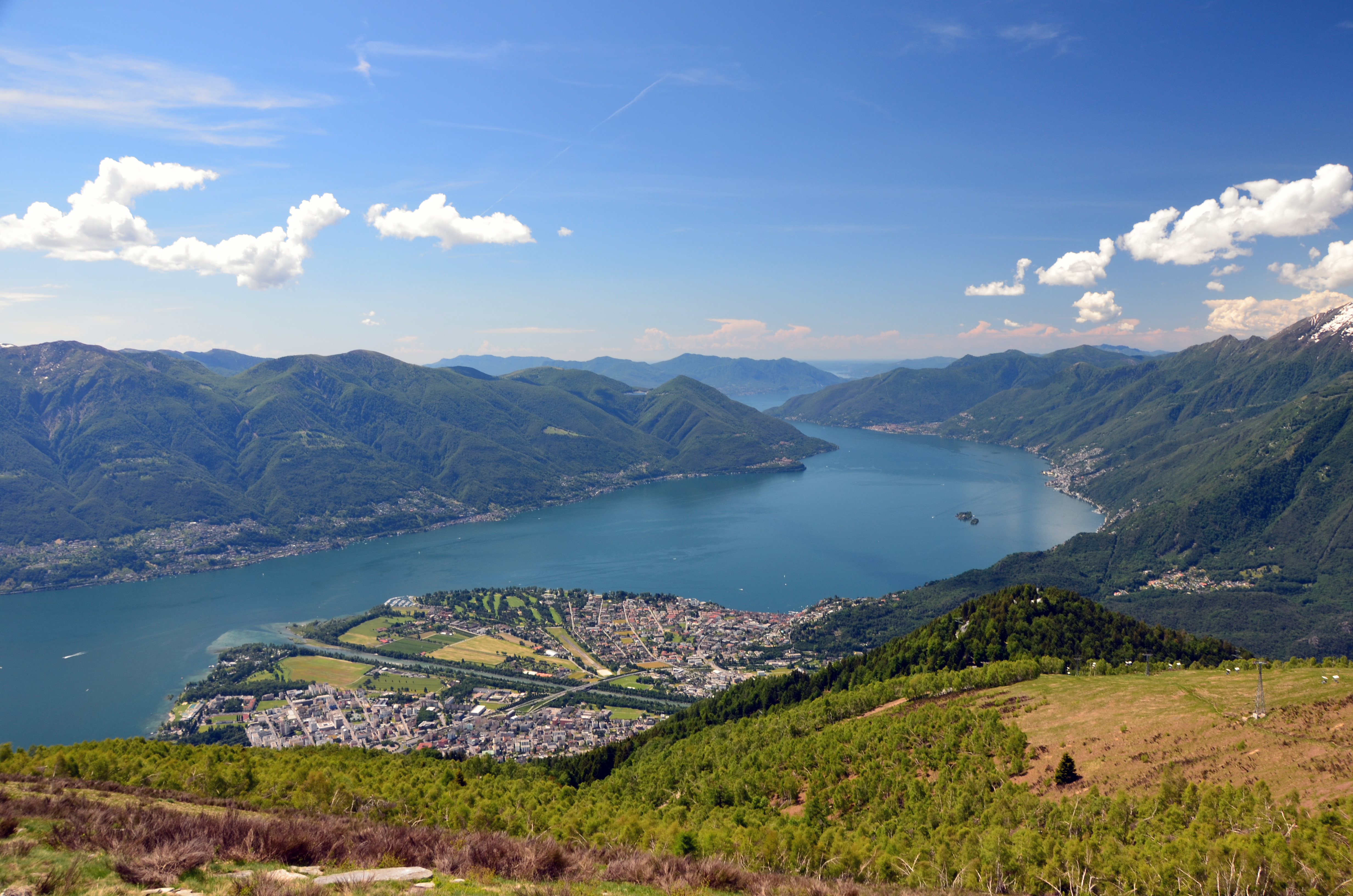 The city of Ascona (canton of Ticino, Switzerland) and the lake Maggiore viewed from Mount Cimetta